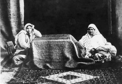 an ancient way of warming in the cold winters - 20 c. -Iran.